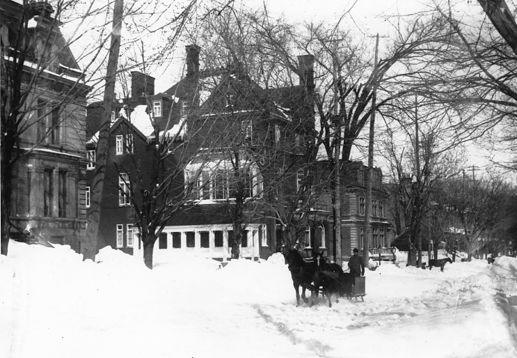 Photograph of Sherbrooke Street at Stanley, Montreal, Quebec, Canada about 1900